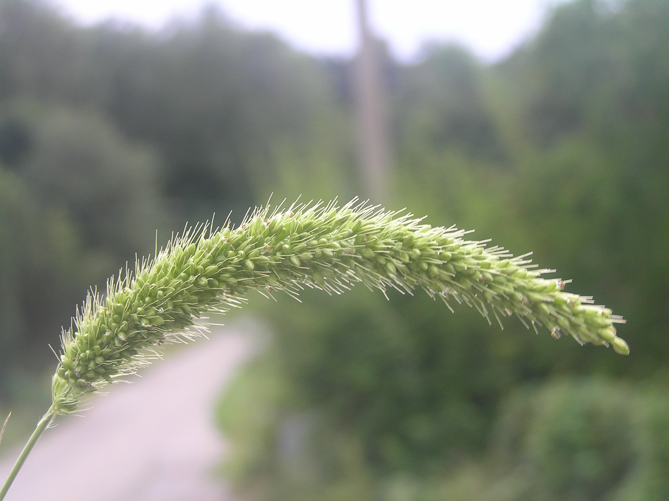 Setaria viridis, Choceň, Czech Republic